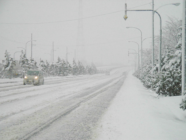 Hokkaidō Prefectural Road 112, Sapporo - Tōbetsu Line. Ainosato, Kita ward, Sapporo, Hokkaidō prefecture, Japan.